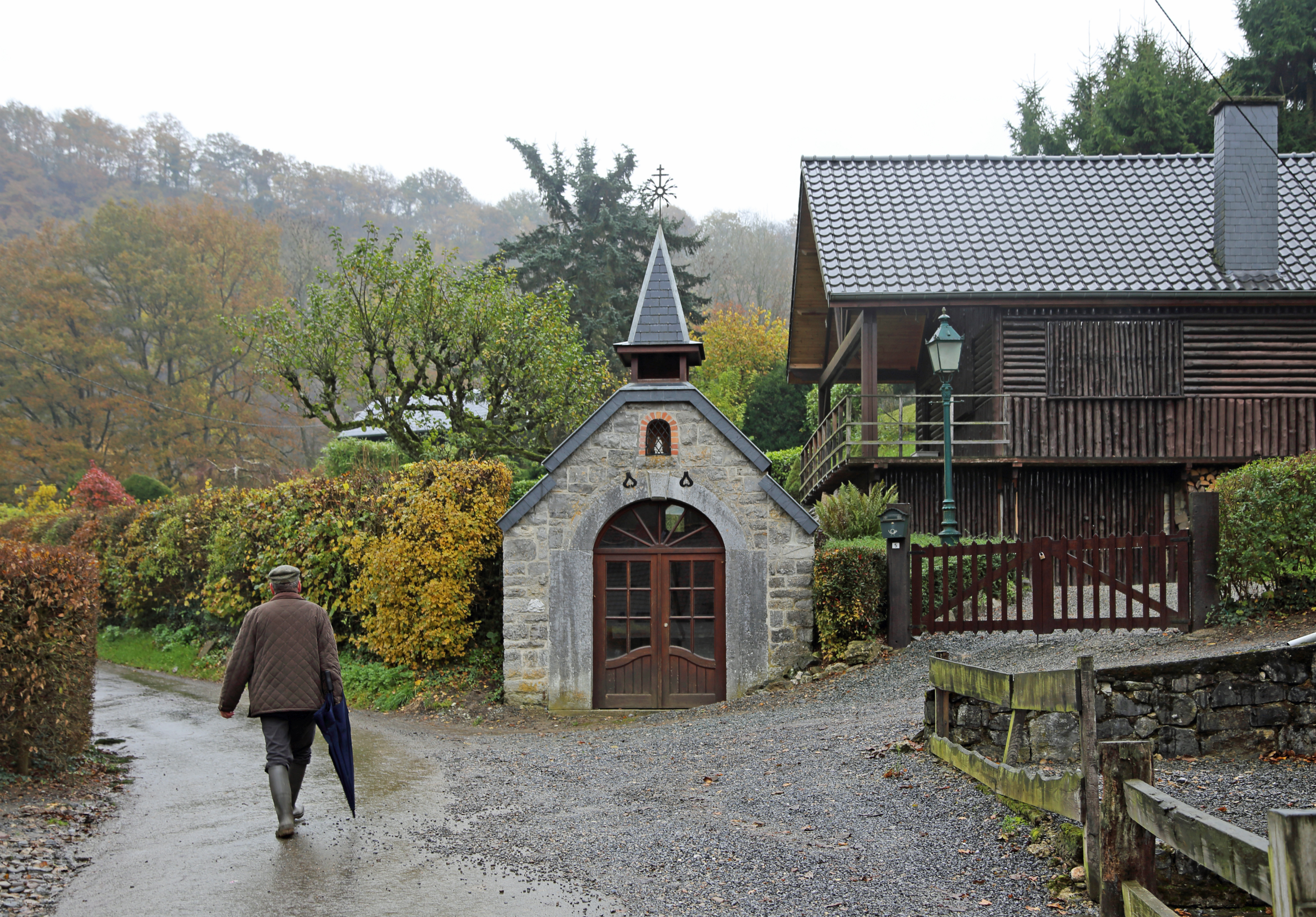 Hulsonniaux (Houyet, Belgium): the St Nicolas chapel in the hamlet of Chaleux